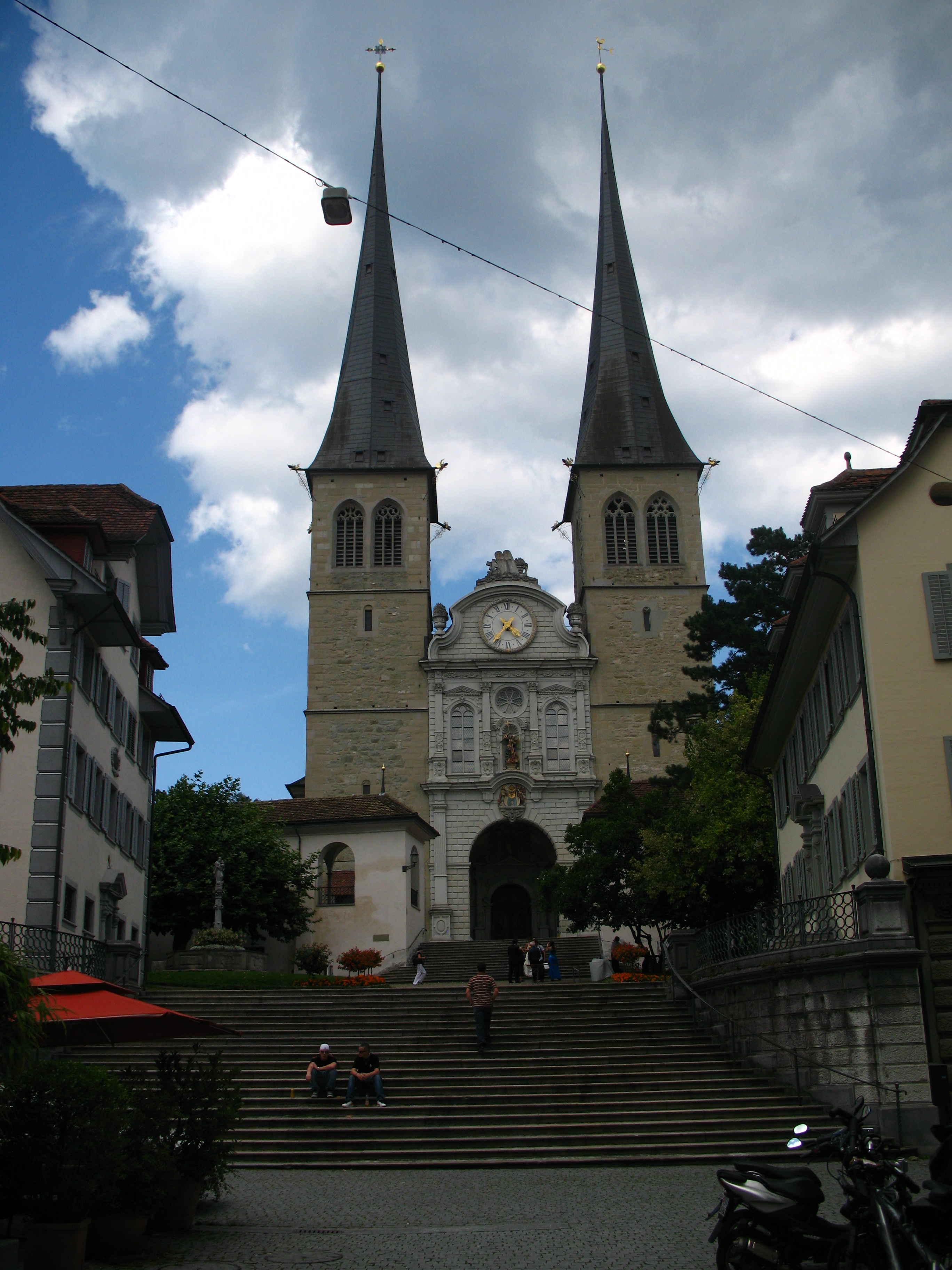 The Main Stairs and the Church of Saint Leodegar above Saint Leodegar Street, Luzern, Switzerland